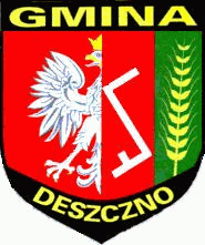 Old coat of arms of gmina Deszczno, Poland